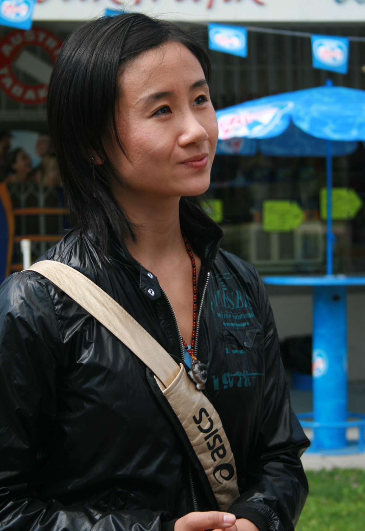 Table tennis player Liu Jia at the presentation of the Austrian team for the 2008 Summer Olympics in China (Strandbad Gänsehäufel, Vienna)